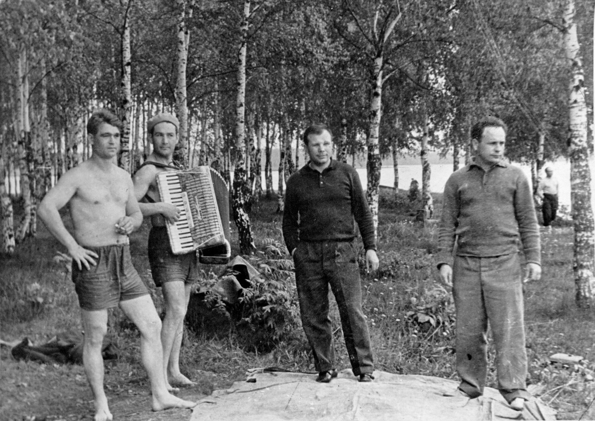 From the family album where the first soviet cosmonauts: Yuri Gagarin, Alexey Leonov, Boris Volynov, Viсtor Gorbatko - are on picnic in Dolgoprudny.